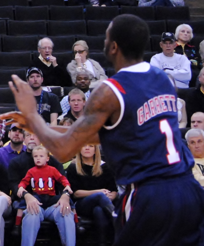 Travis McKie goes for the block